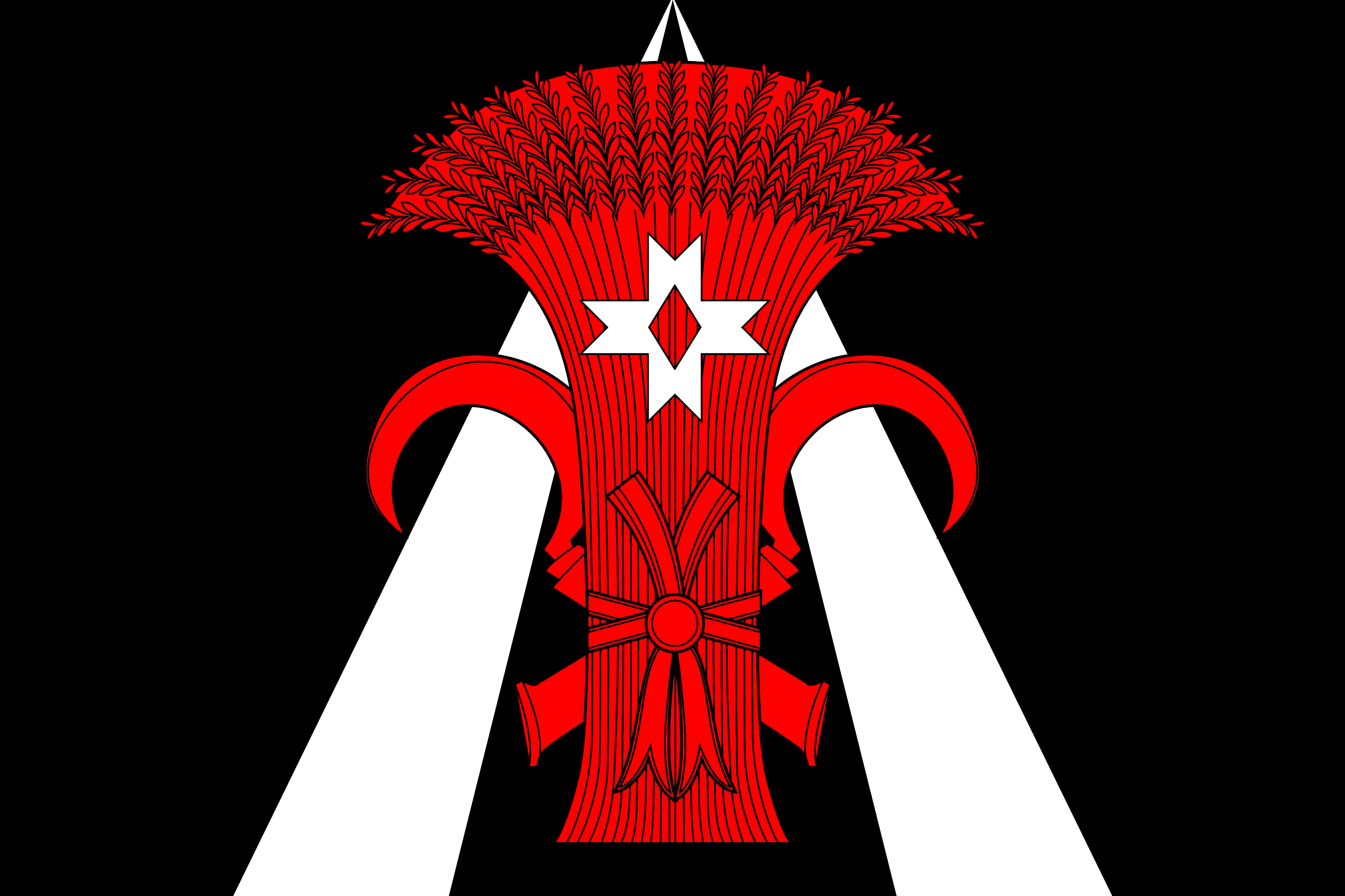 Flag of Shushary, Saint Petersburg, Russia